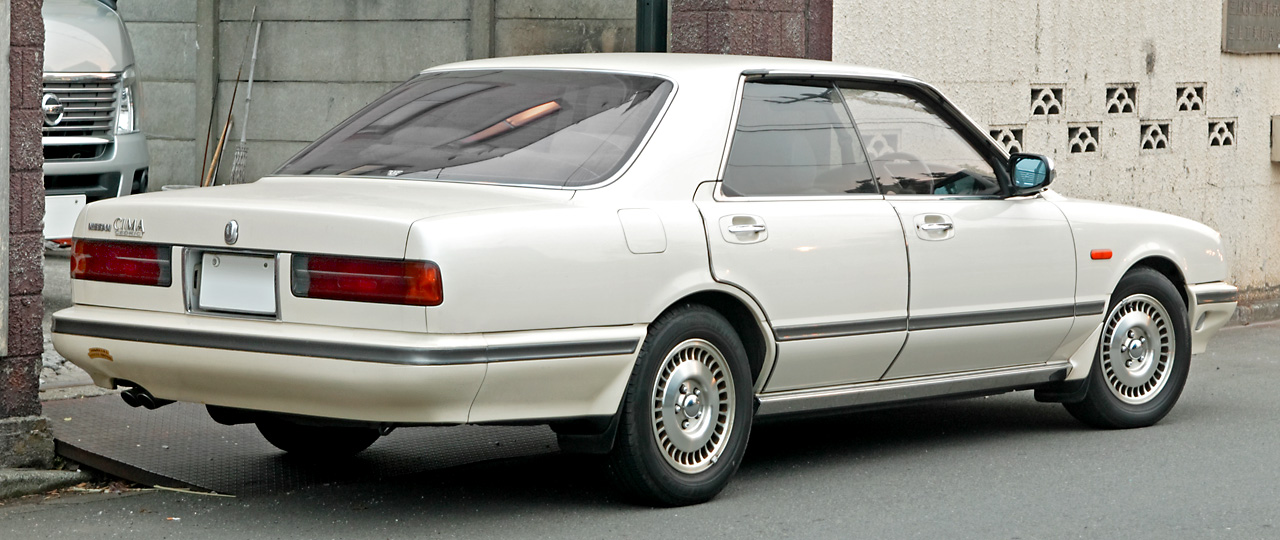 Nissan Cedric Cima ( FPY31 )